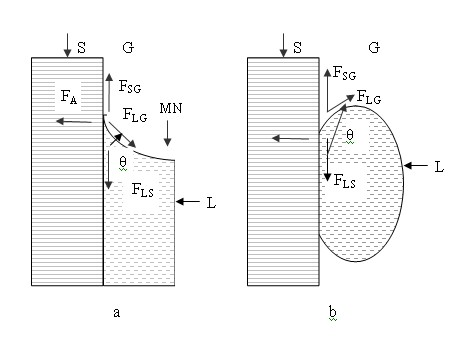 Molecular power 11. Fluid behavior at the phase boundary in the case of wetted and non-wetted capillary surface.